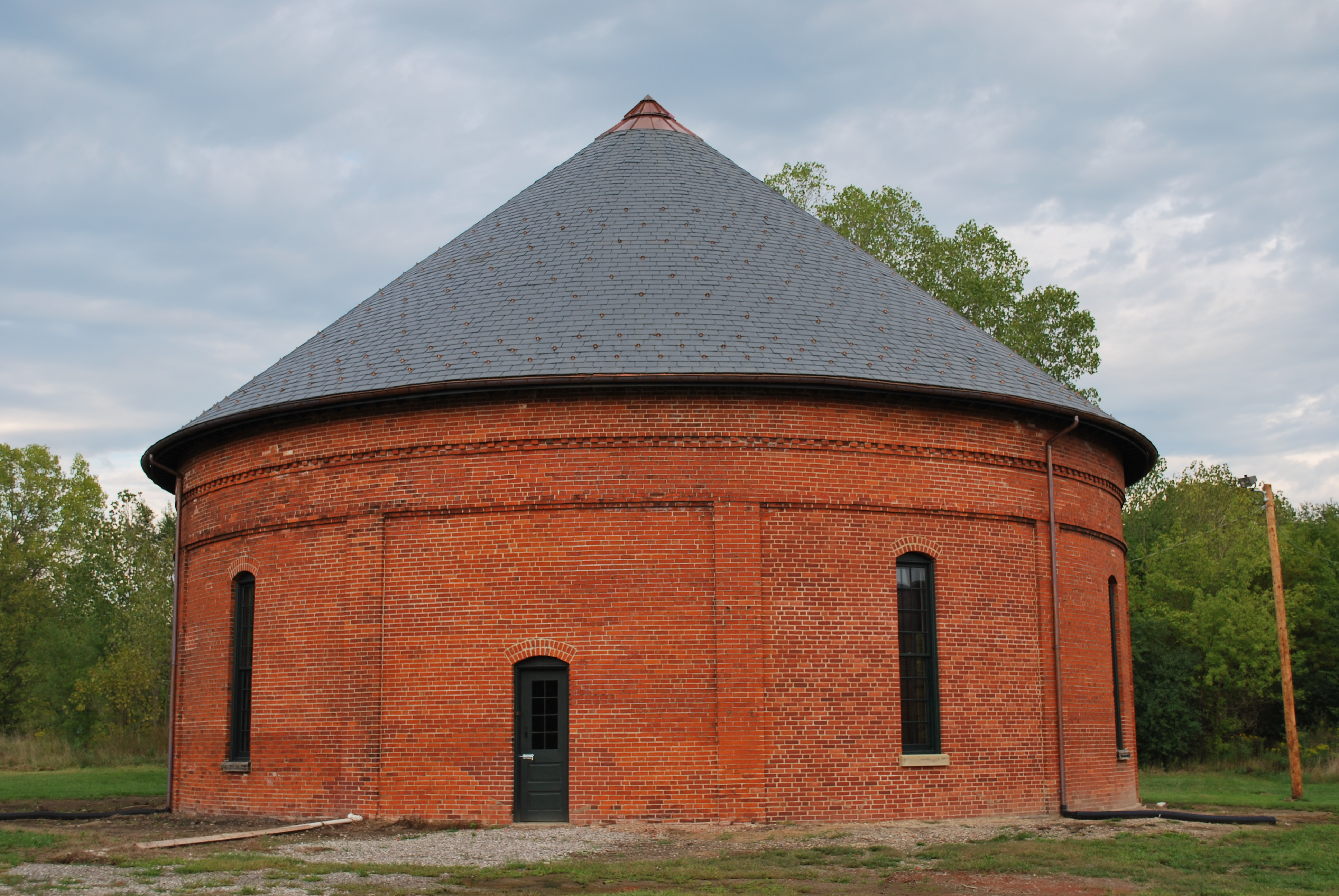 Oberlin Gas Lighting Company Gasholder House